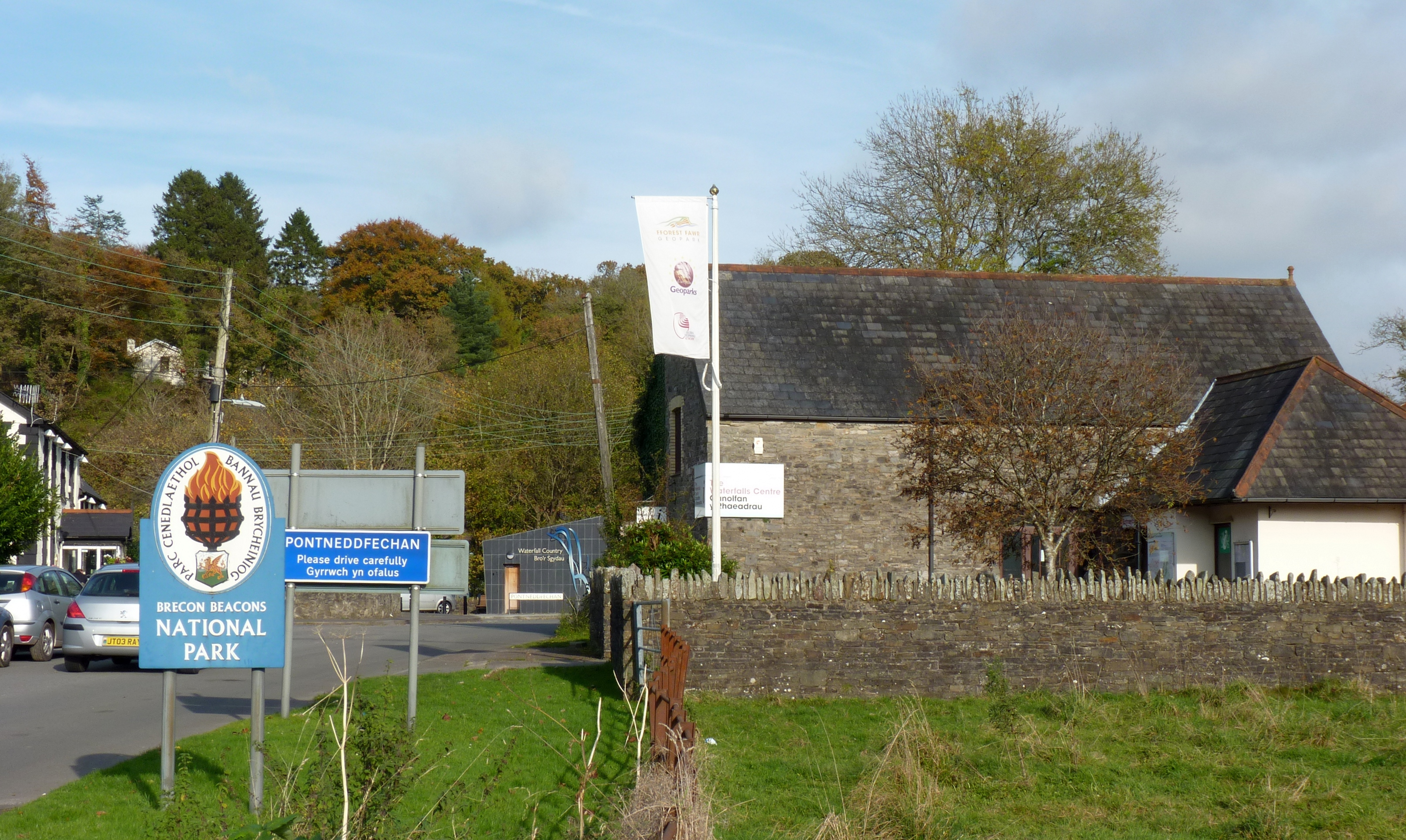 The Waterfalls Centre, main building centre right, provides information on the waterfalls of the River Neath tributaries, Brecon Beacons National Park and the Fforest Fawr Geopark. In the foreground is the boundary marker for the National Park and the boundary between Powys and Neath Port Talbot. On the extreme left is the historic Angel Inn, Pontneddfechan.